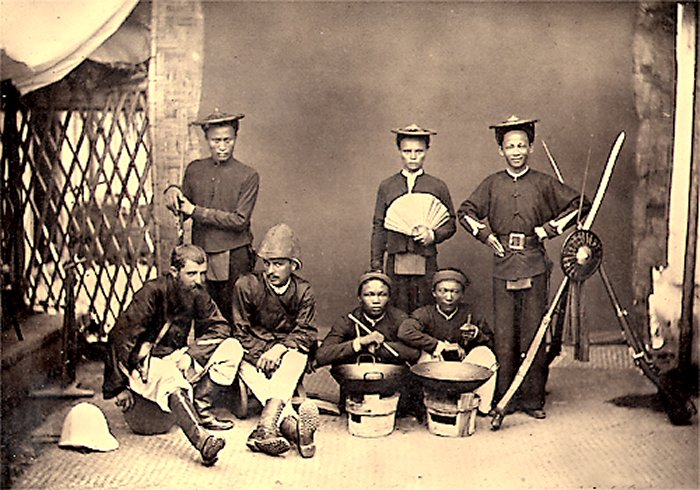 French officers and Tonkinese riflemen (tirailleurs tonkinois, linh tap) in Tonkin, 1884